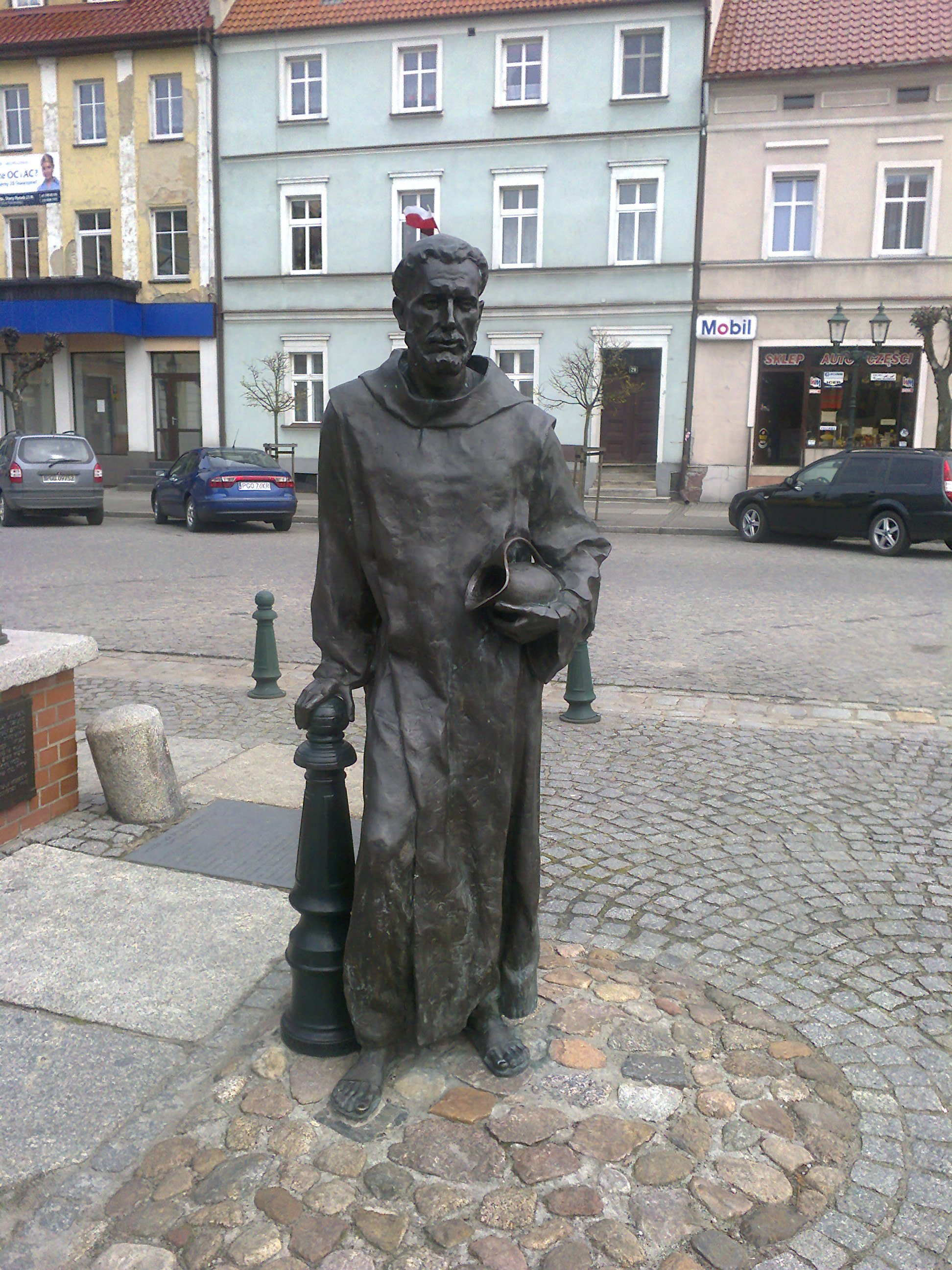 Blessed Bernard in Grodzisk Wielkopolski (Poland)